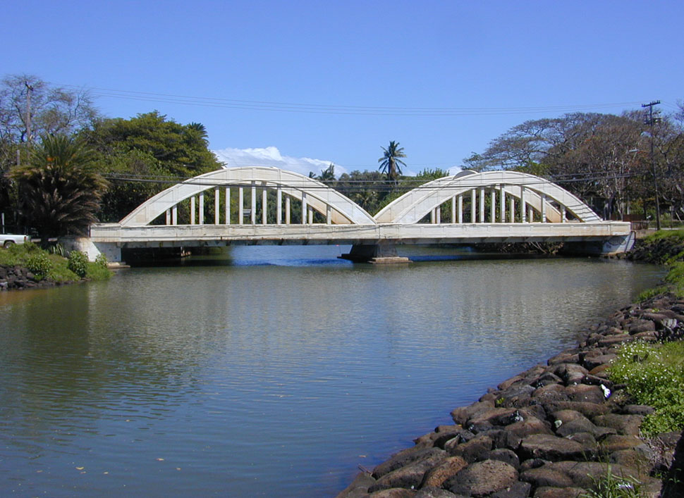 Photo of historic twin-span bridge over the Anahulu River at Hale‘iwa, O‘ahu.